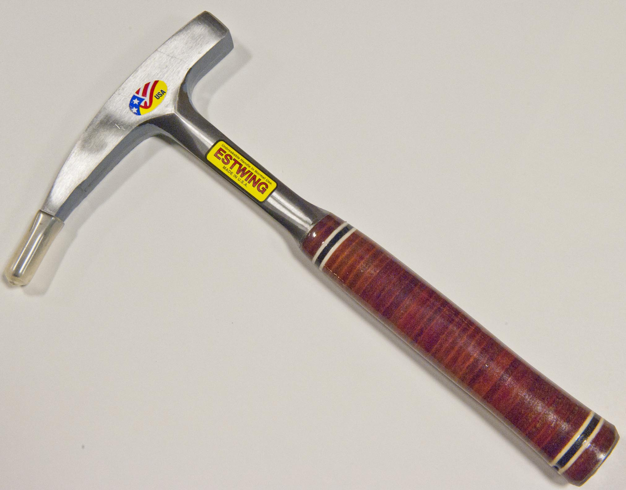 Geologist hammer by Estwing